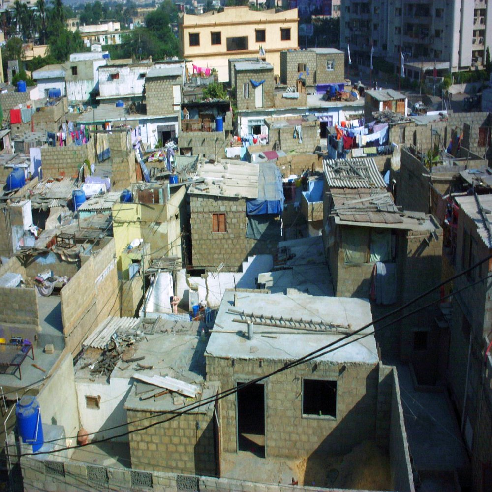 This area is called Race Course, it's behind Glass Tower. It's not Frir-Hall [Frere Hall isn't far though]. This used to be an upscale neighborhood of Karachi. There used to be a race course here and foreign embassies, back when Karachi was the capitol. Now it hosts an illegal squatter settlement.